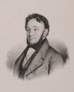 Geskel Saloman: Portrait of Jacob Gülich, 1840, Lithography